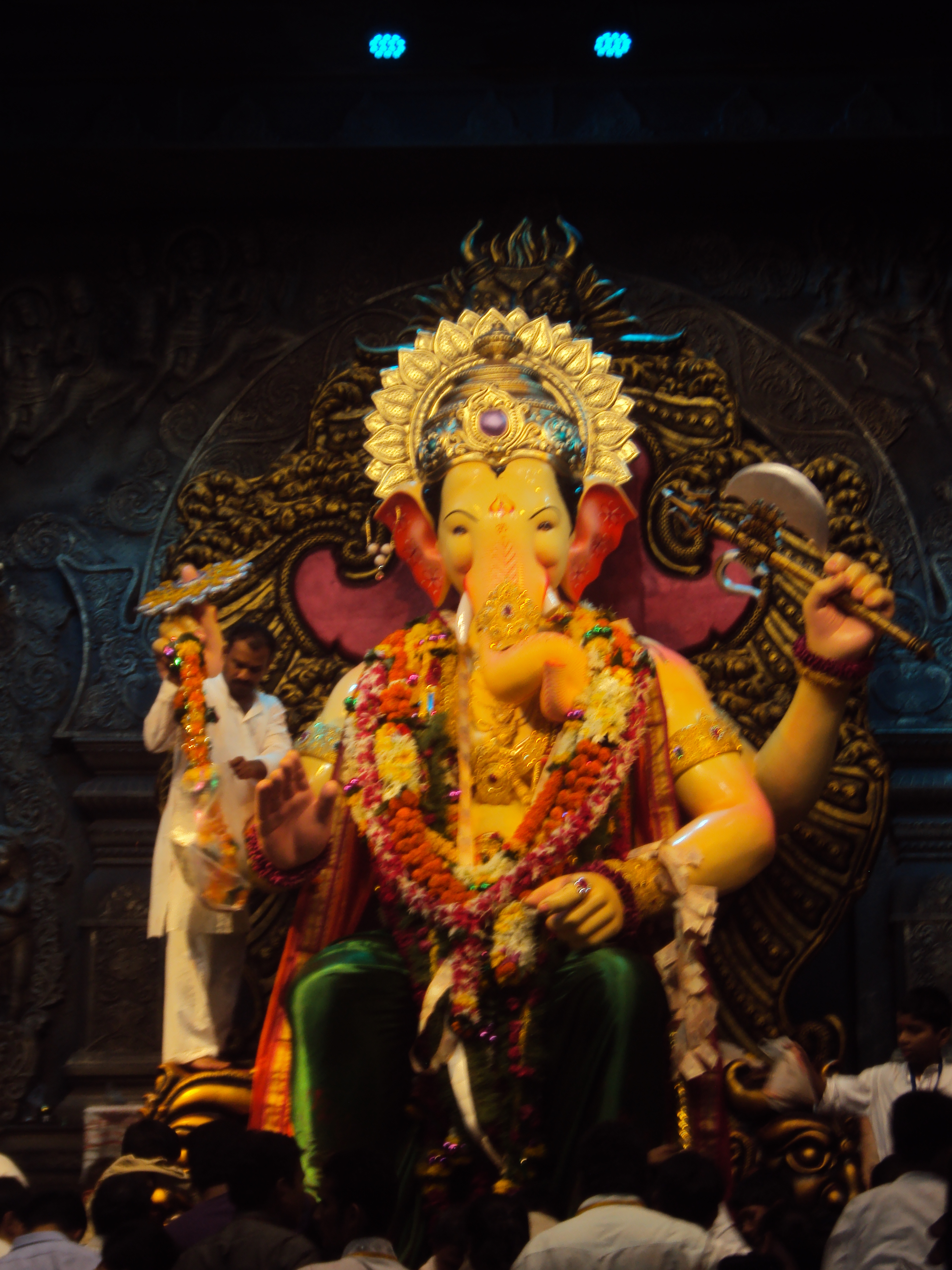 Lalbagcha Raja on 7th Day in the year 2011